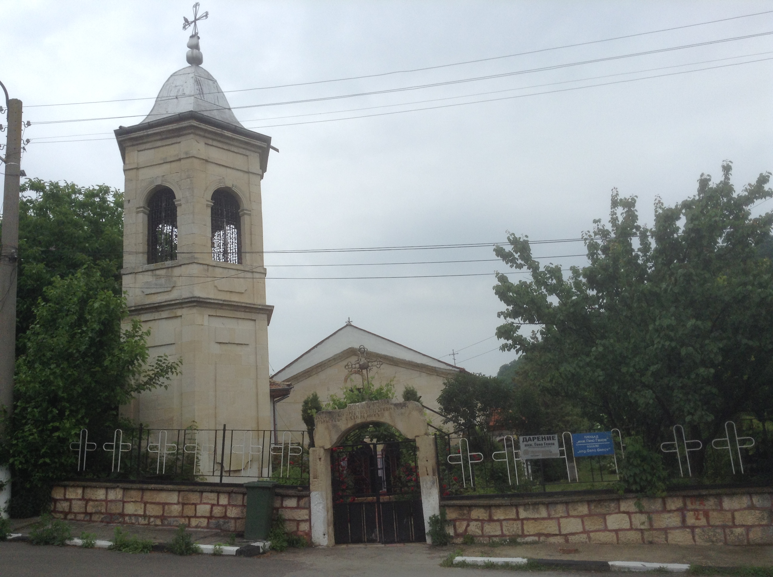 Sveta Paraskeva church in village of Svalenik, Bulgaria.